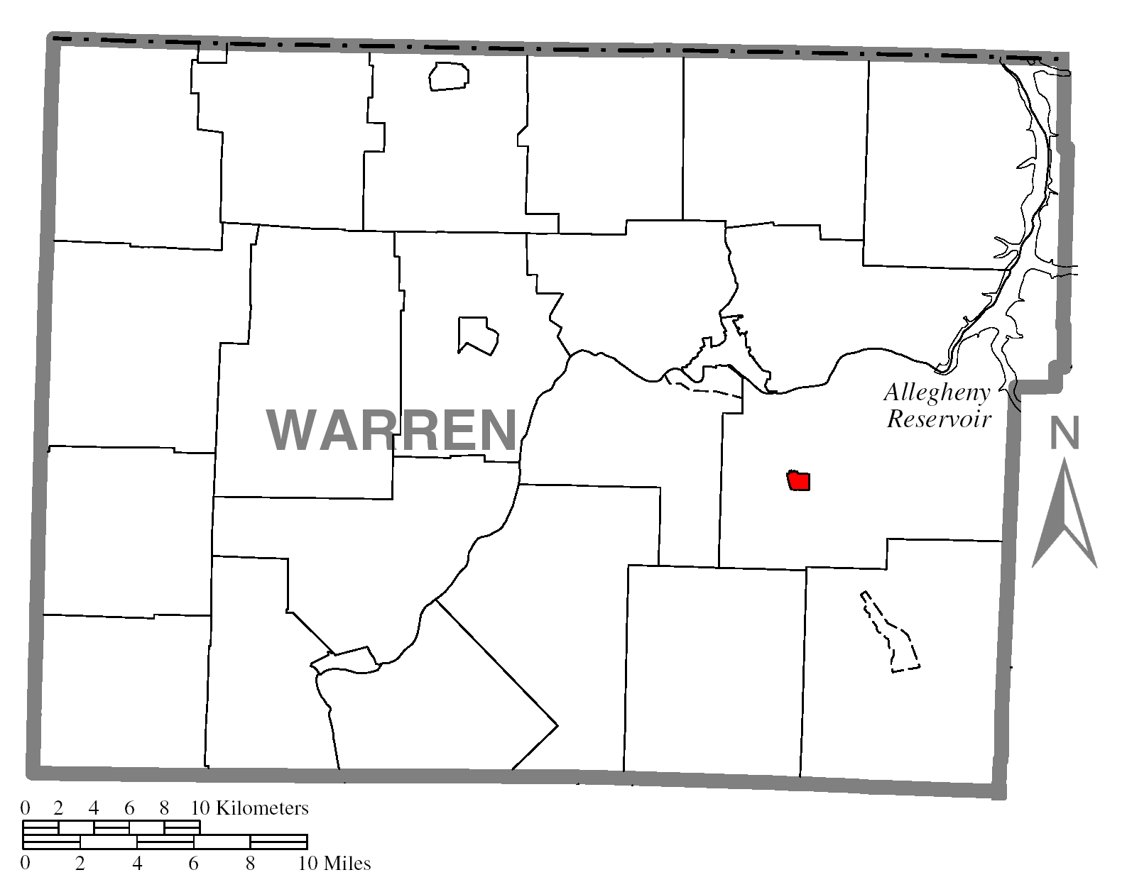 Map of Warren County higlighting Clarendon.